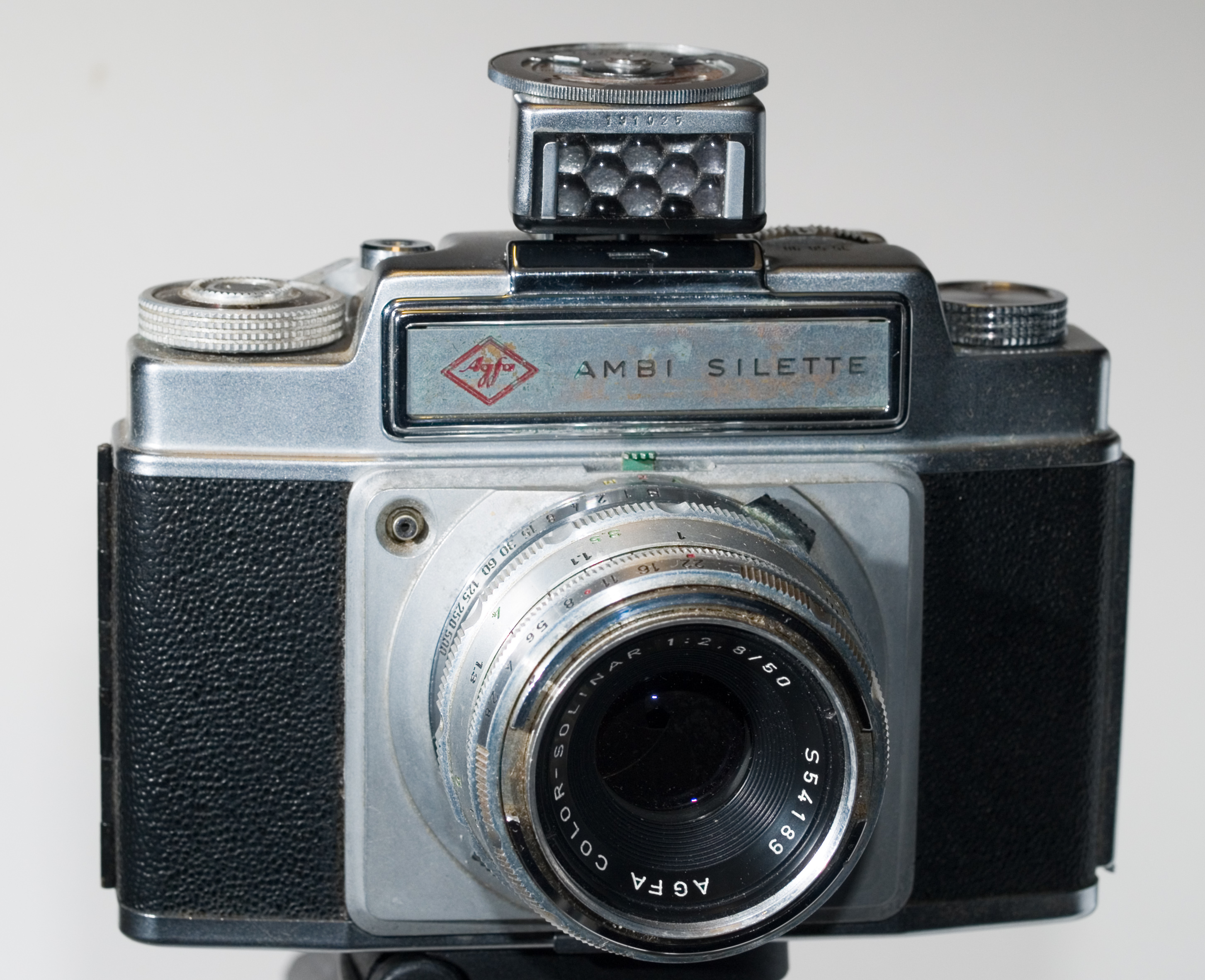 Agfa Ambi Silette - Viewfinder camera for 135mm film and exchangeable lenses. Lenses: Agfa Color Aambion 1:4/35mm; Color Solinar 1:2,8/50; Color Telinear 1:4/90mm. Shutter: Synchro Compur, range = 1sec. to 1/500sec and "B".